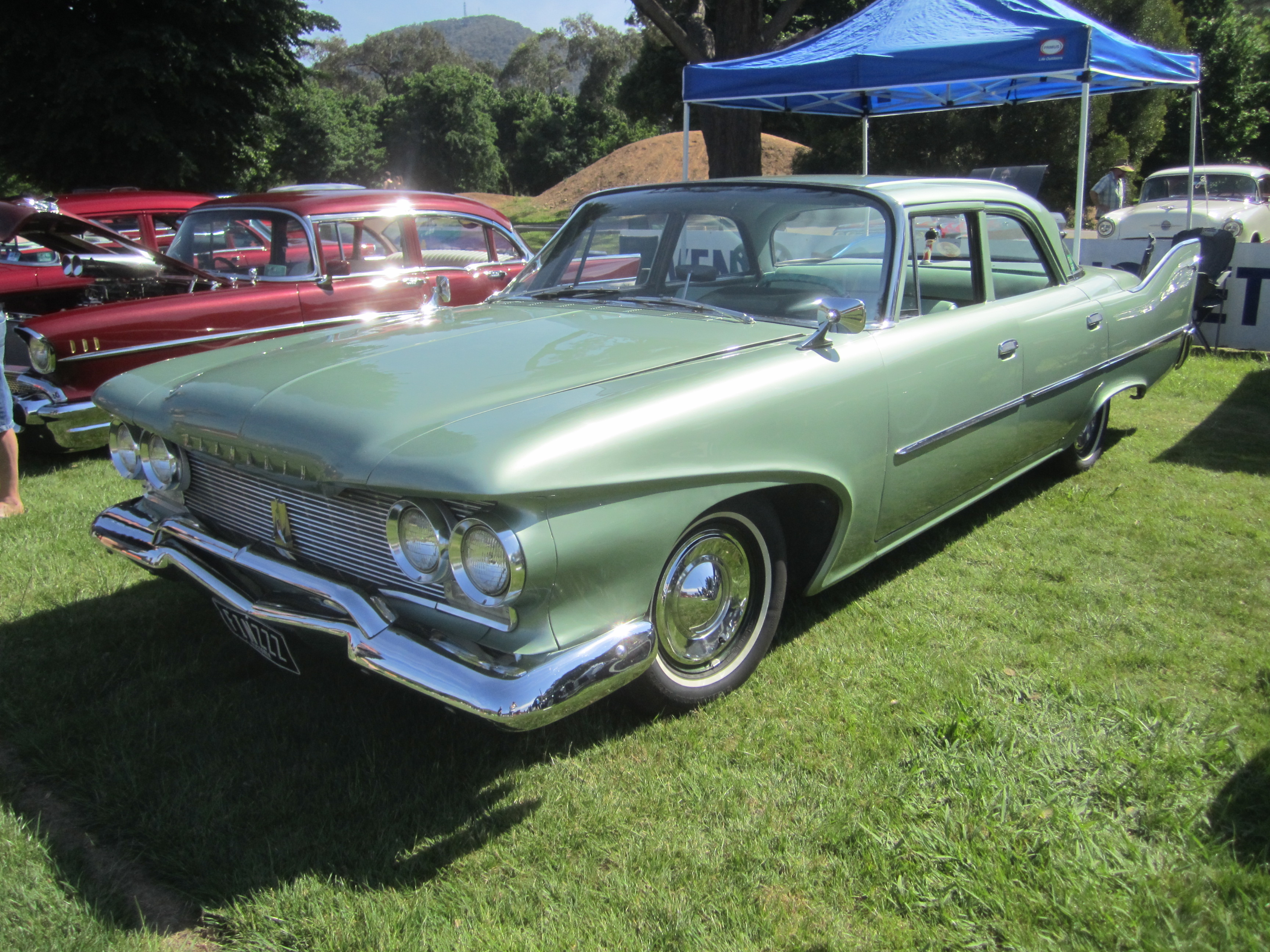 Belvederes were made from 1951-70. Top trim level. Engine; 350 cu in Golden Commando V8